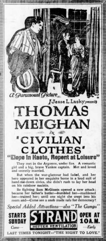 Newspaper advertisement for the American comedy film Civilian Clothes (1920) with Thomas Meighan, on page 10 of the December 4, 1920 The Duluth Herald.